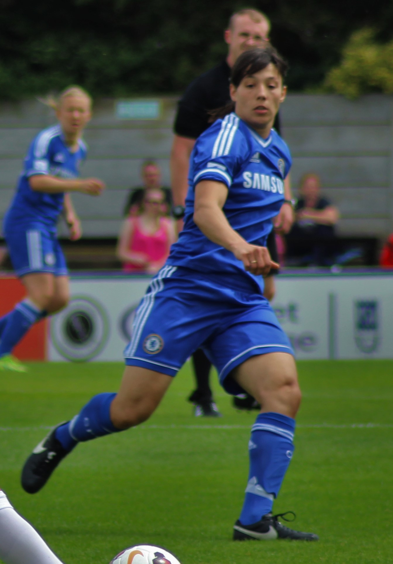 Rachel Williams of Chelsea Ladies in the Continental Cup game against Arsenal Ladies